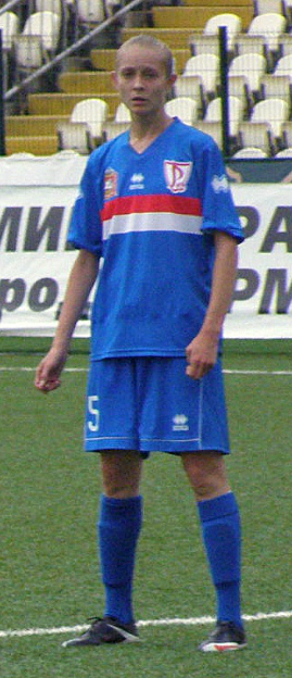 Olga Petrova in action for FC Rossiyanka